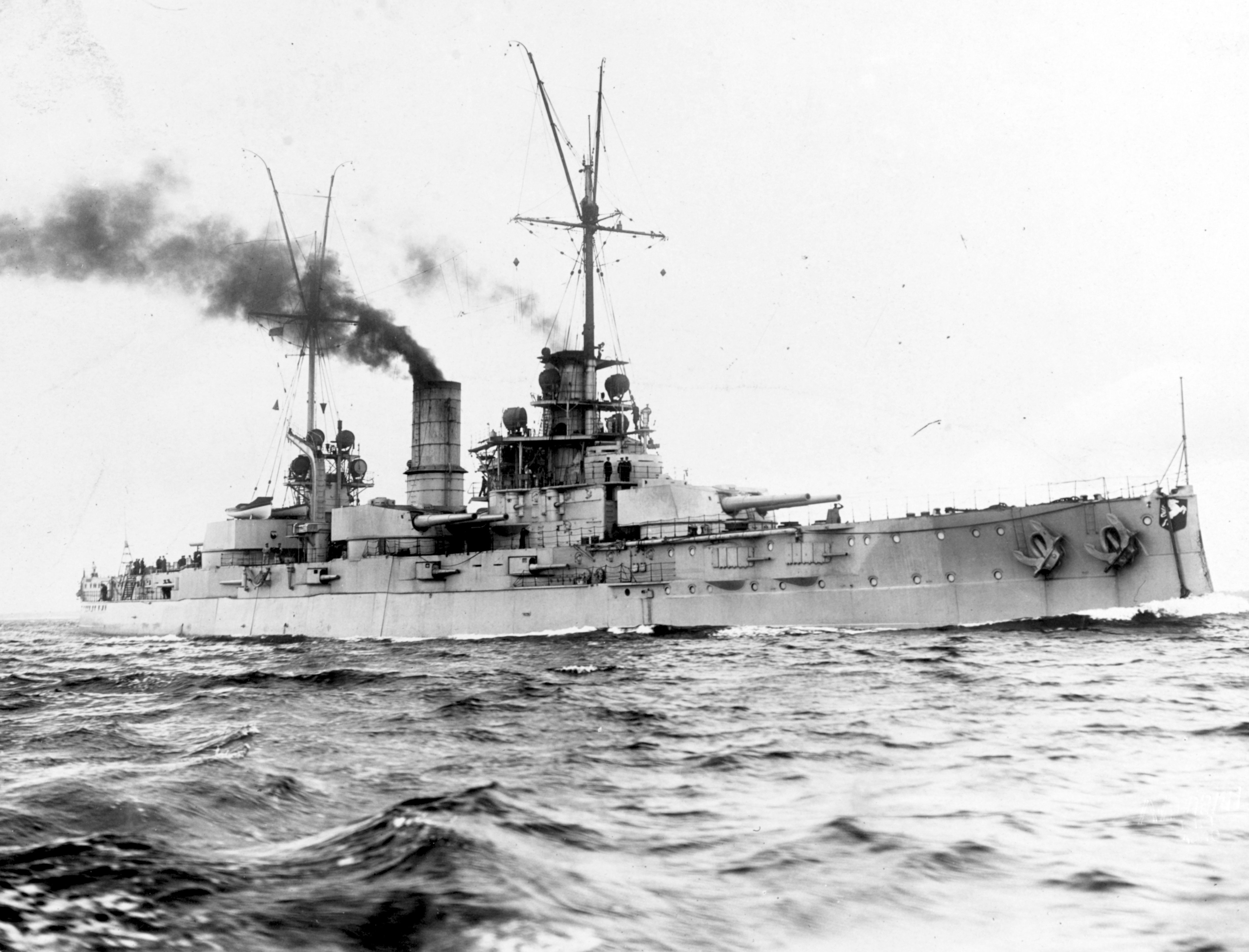 Photographed very soon after completion by A. Renard of Kiel, Germany, in a print received by the U.S. Navy Office of Naval Intelligence in 1910. The ship was commissioned on 16 November 1909.